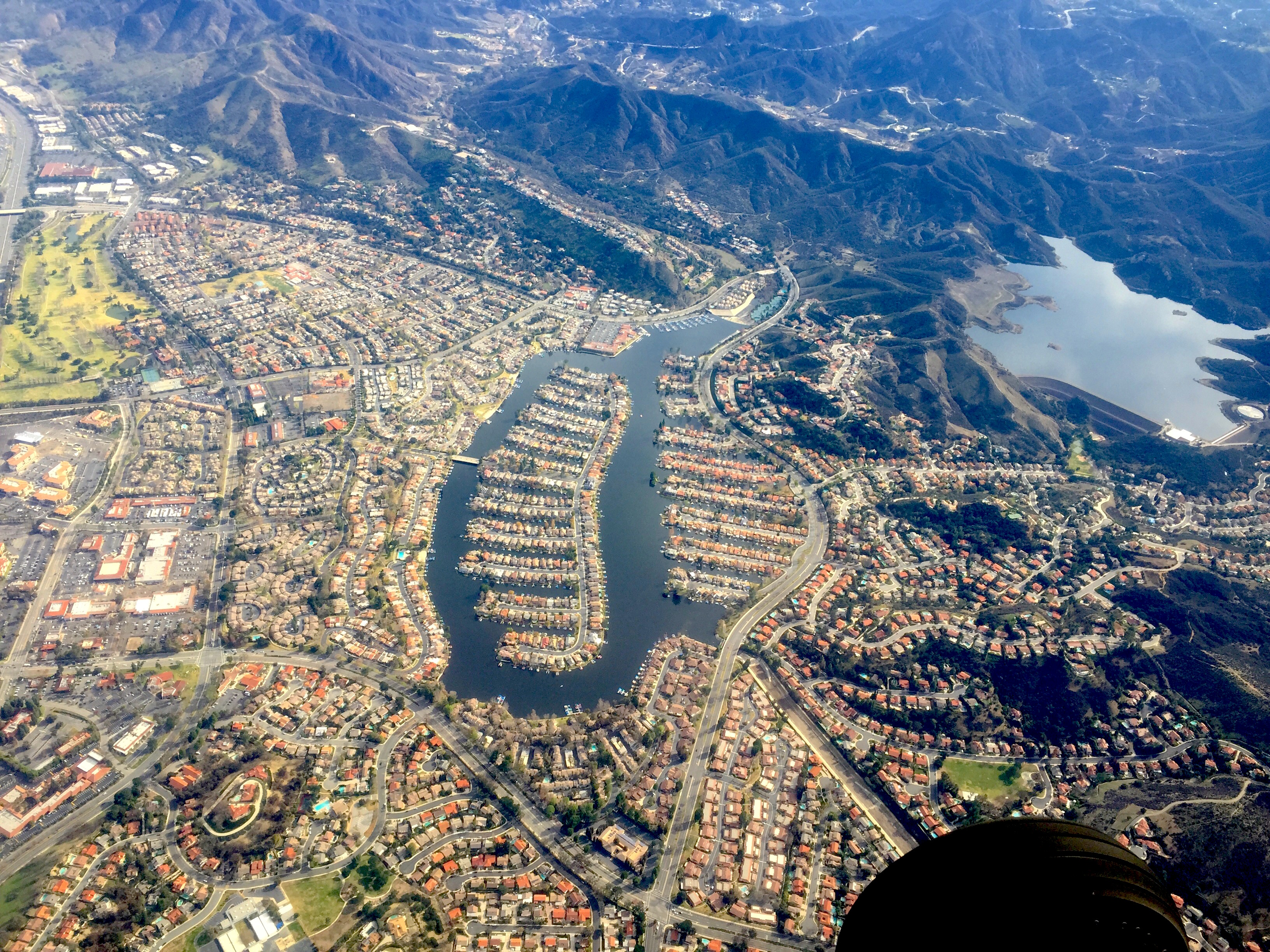 Aerial of Westlake Lake and surrounding Westlake Village, CA.